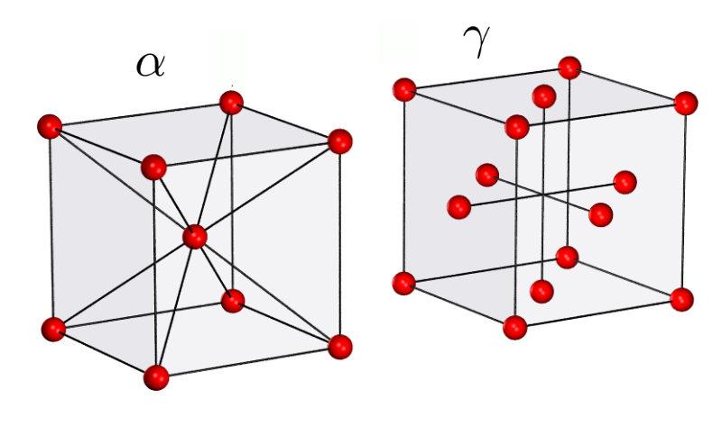 alfa and gamma forms of iron